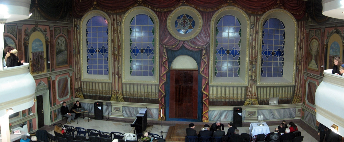 Intérieur der Zori Gilod Synagoge in Lemberg. Tsori Gilod Synagogue in Lviv.